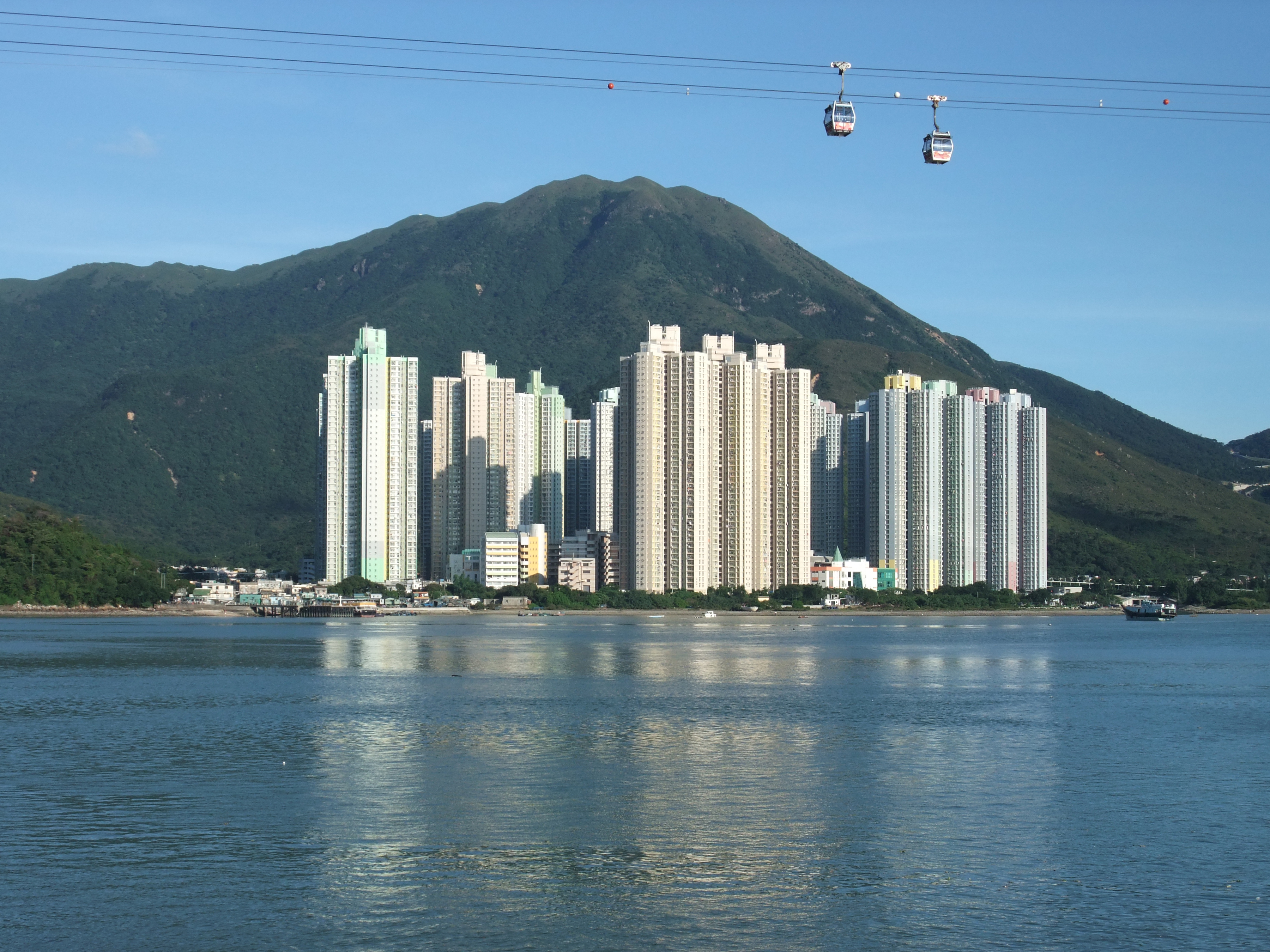 Photo of Yat Tung Estate